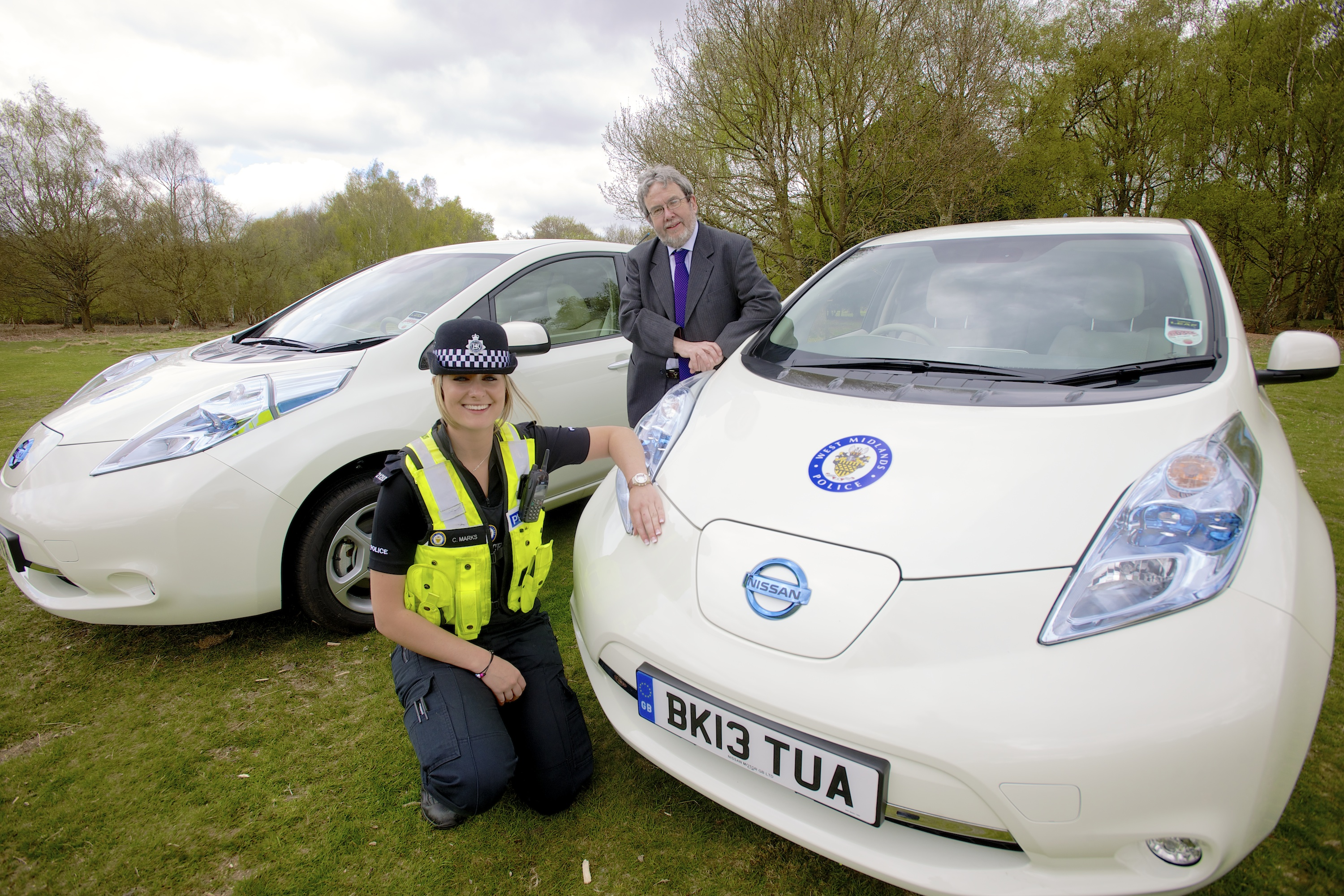 Leased Nissan Leafs operating as electric patrol cars for the West Midlands Police, England, UK